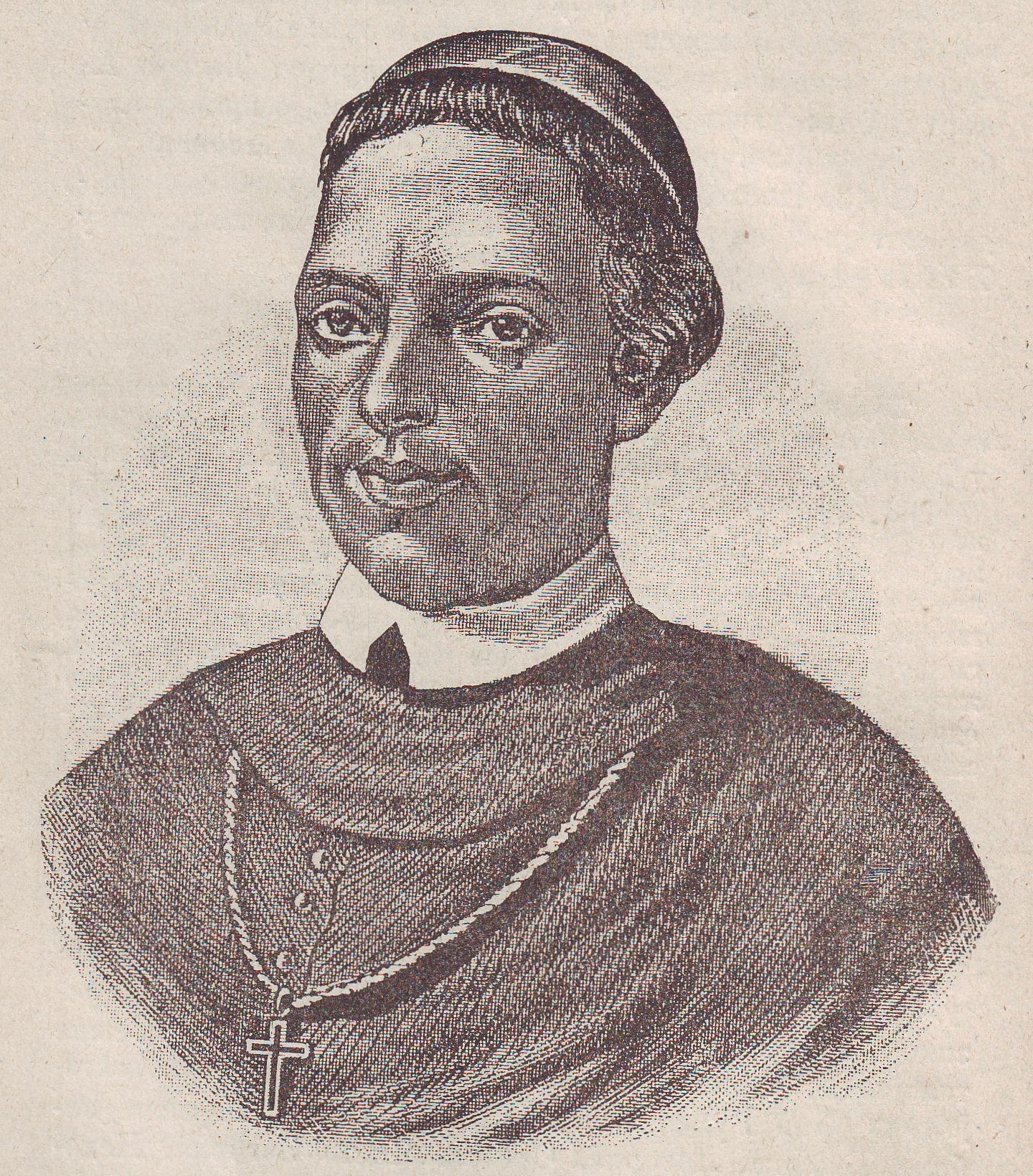 Ignjat Đurđević (1675-1737), Baroque poet and translator, historian, astronomer and biographer from Dubrovnik. Taken from Istorija srpske književnosti (1906) by Jovan Grčić. Srpski (latinica): Ignjat Đurđević (1675-1737), barokni pesnik i prevodilac, istoričar, astronom i biograf iz Dubrovnika. Preuzeto iz Istorije srpske književnosti (1906) Jovana Grčića.